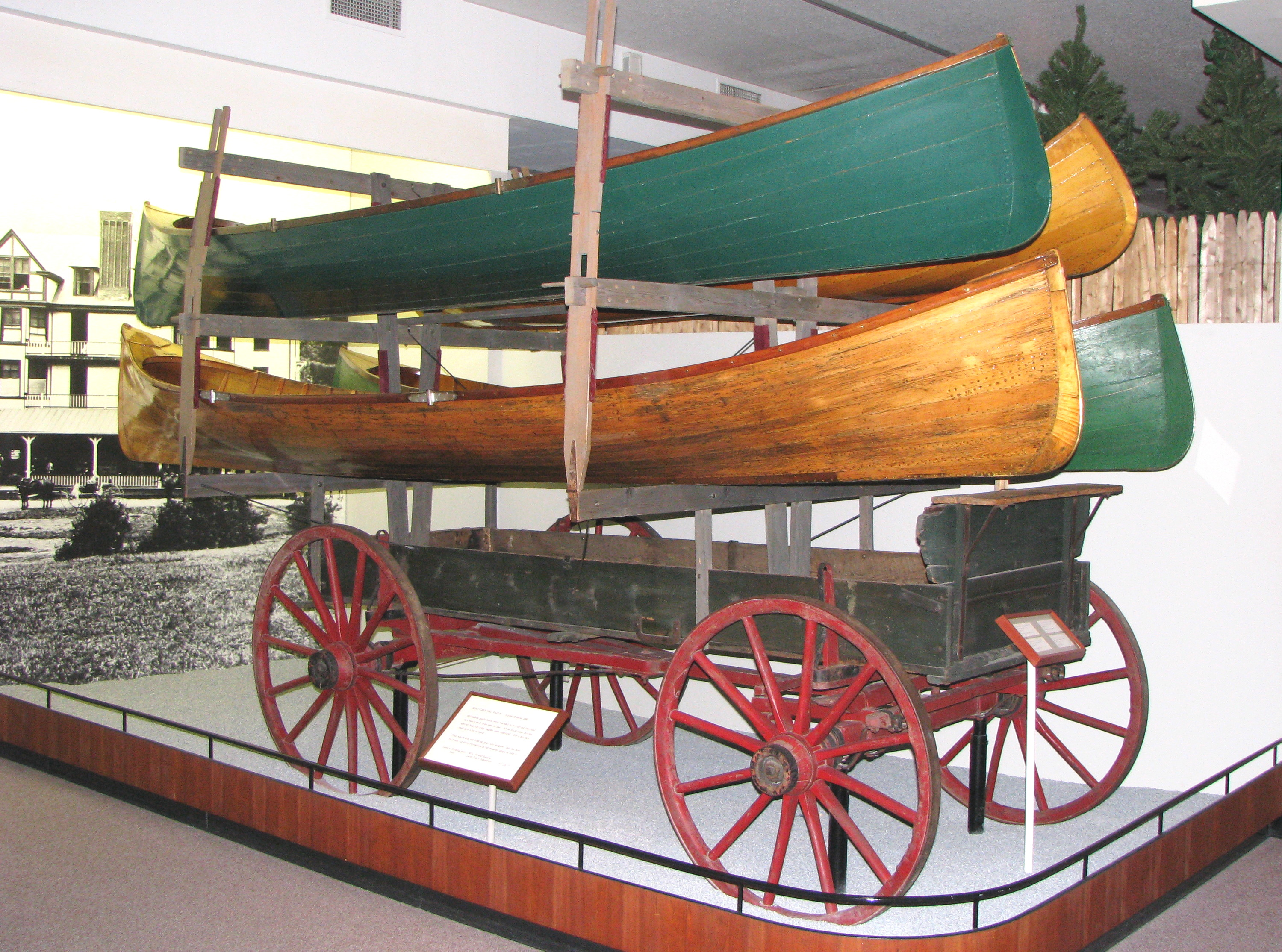 Boat-carrying wagon, typical of 1890s, Adirondack Museum, Blue Mountain Lake, NY